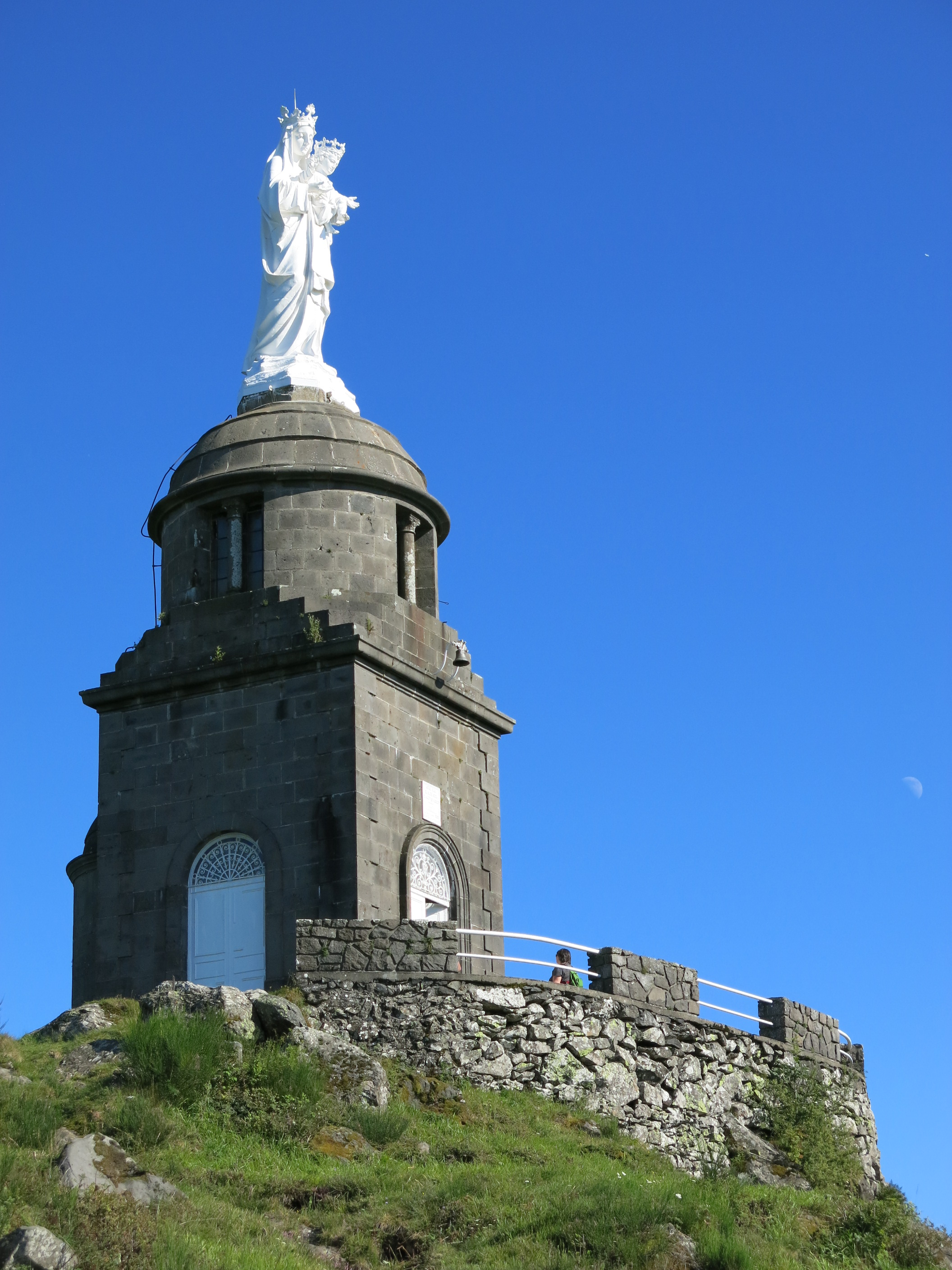 Look from north-west of the chapel of Notre-Dame de Natzy (Puy-de-Dôme, France).